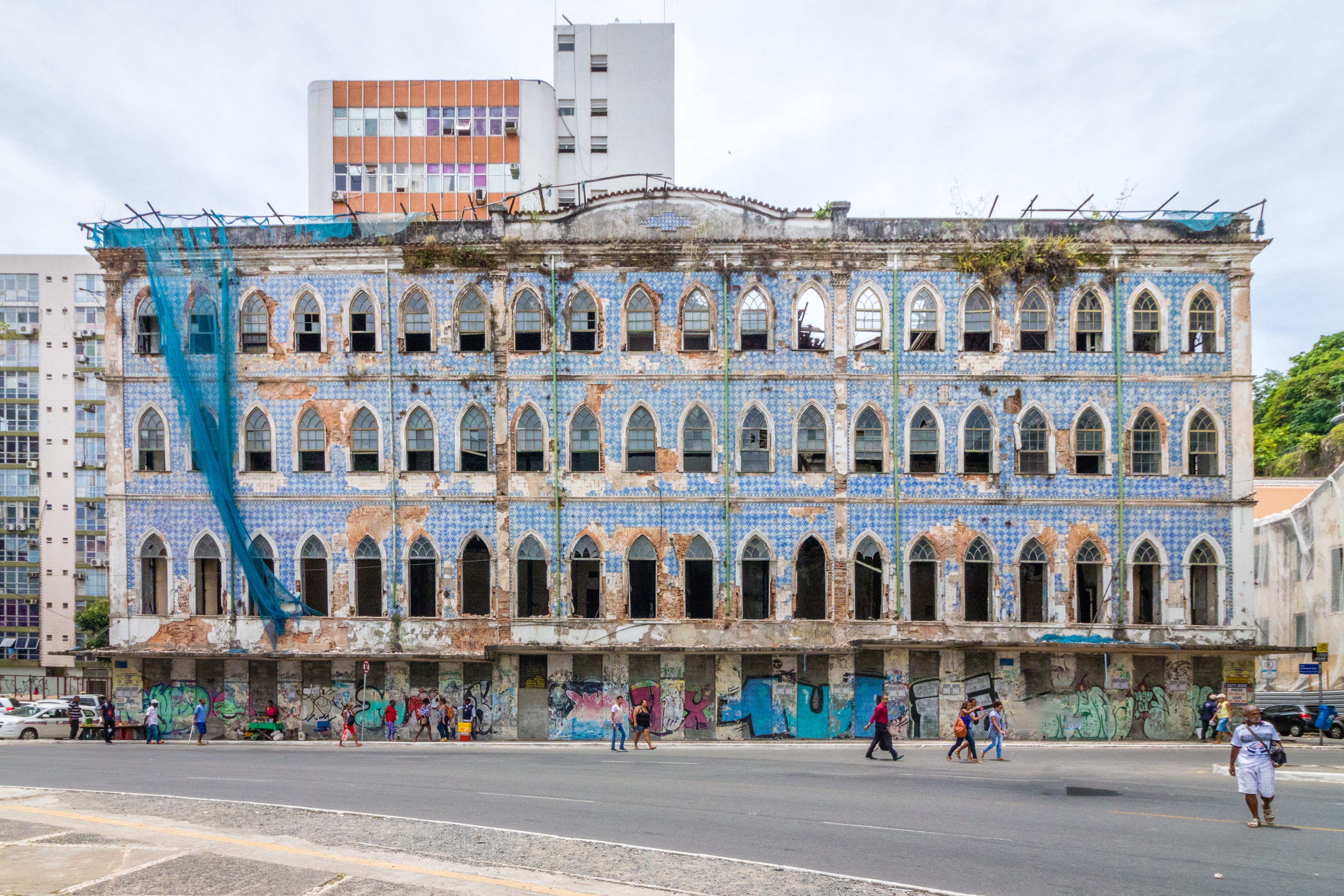 Sobrado Azulejado, Cayru Square, Comércio, Salvador, Bahia, Brazil.